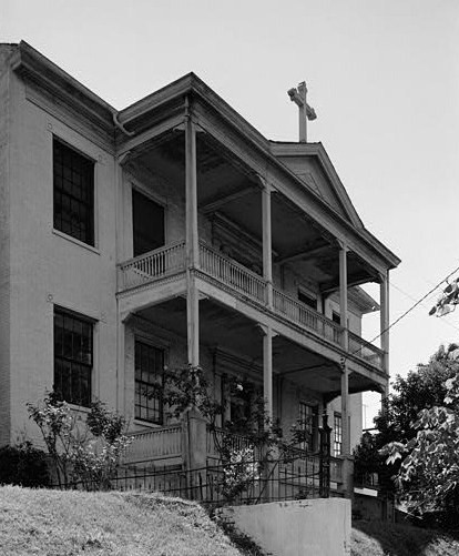 Pemberton's Headquarters, 1018 Crawford Street, Vicksburg (Warren County, Mississippi) (cropped)